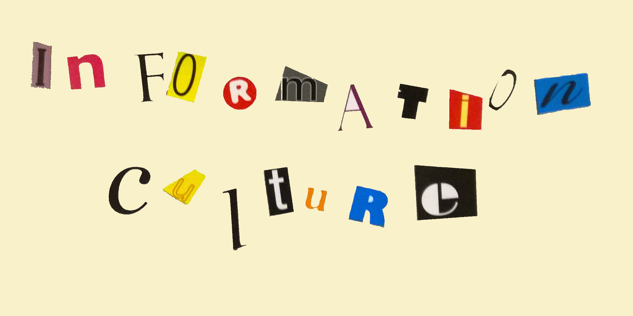 Information culture logo